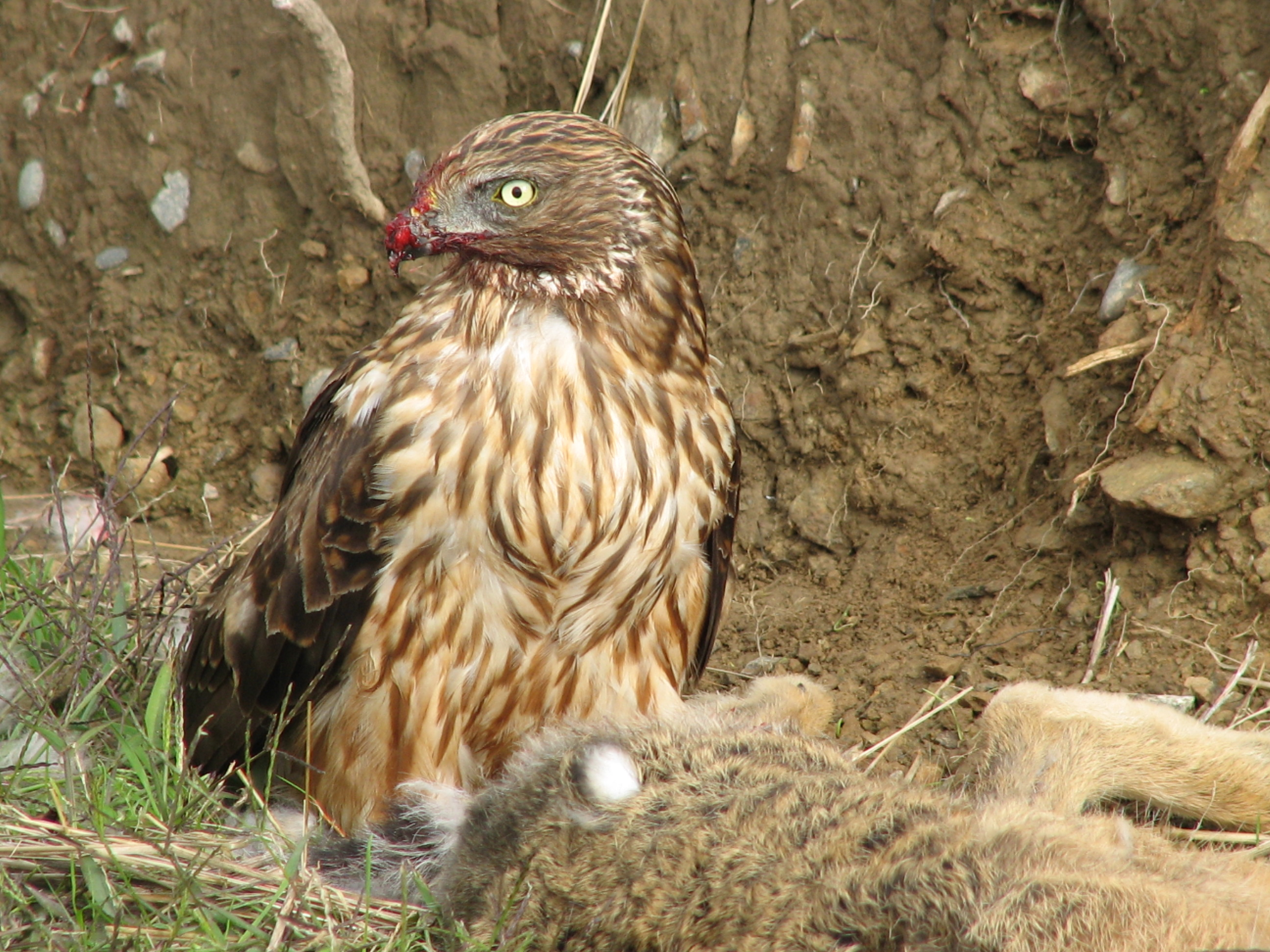 Circus approximans, Swamp Harrier or Australasian Harrier, eating a hare. Near Makara Beach, Wellington region, New Zealand.